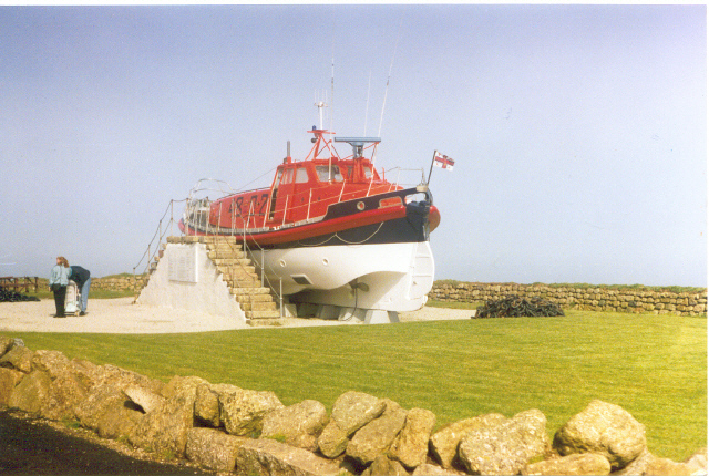 Oakley class lifeboat James and Catherine Macfarlane (48-02) on display at Land's End in Cornwall. It was stationed at Padstow 1967–1983 then at The Lizard until withdrawn in 1987.